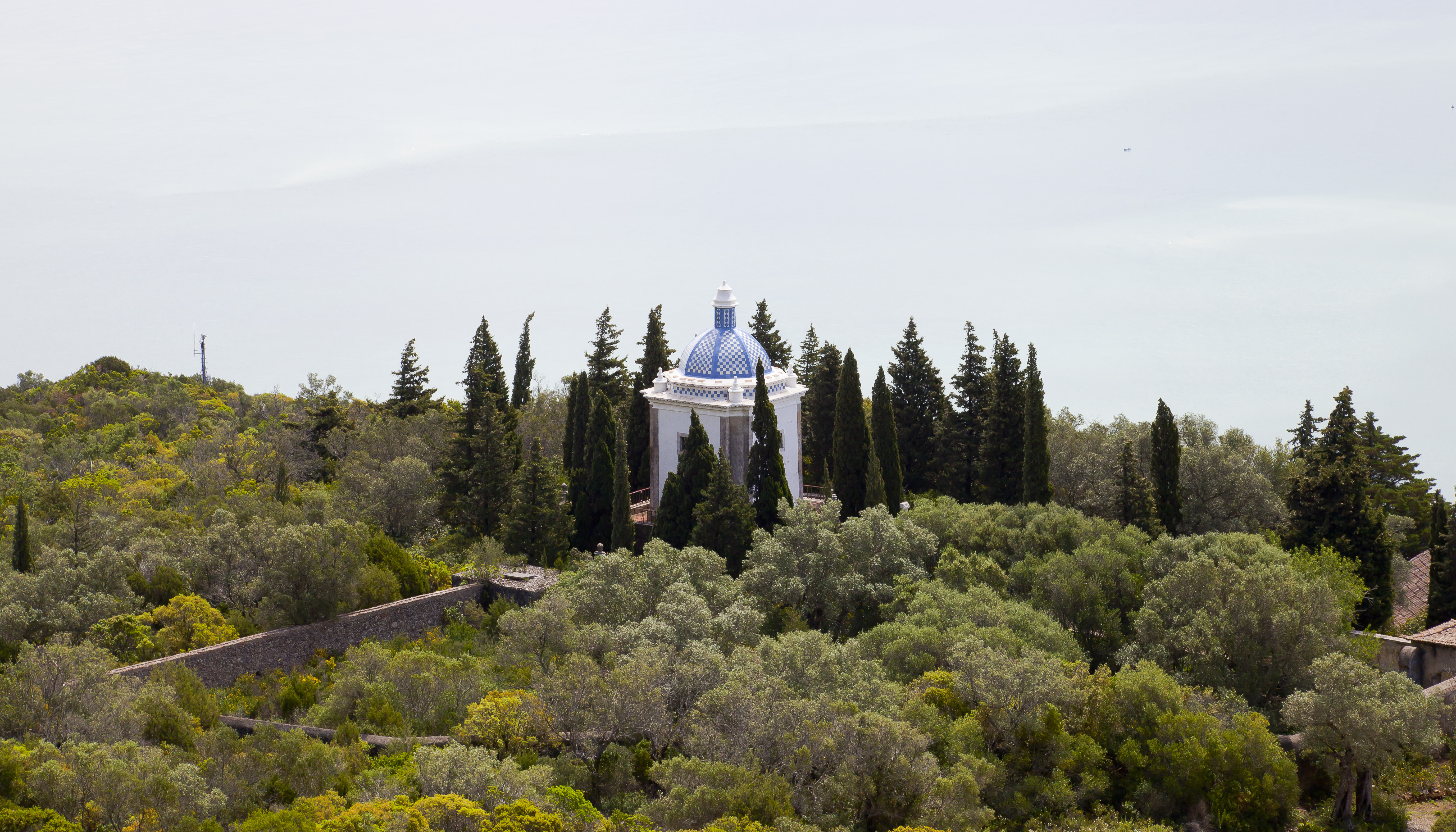 Natural Park of Arrabida, Setubal, Portugal